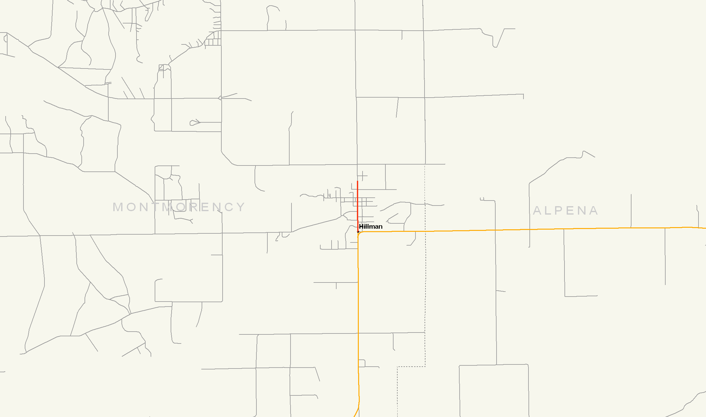 Map of Business M-32 near Hillman, Michigan